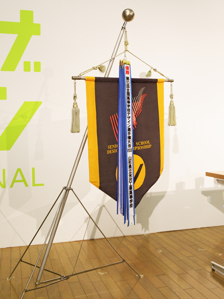 The winner frag of the Japan senior high school design championship.